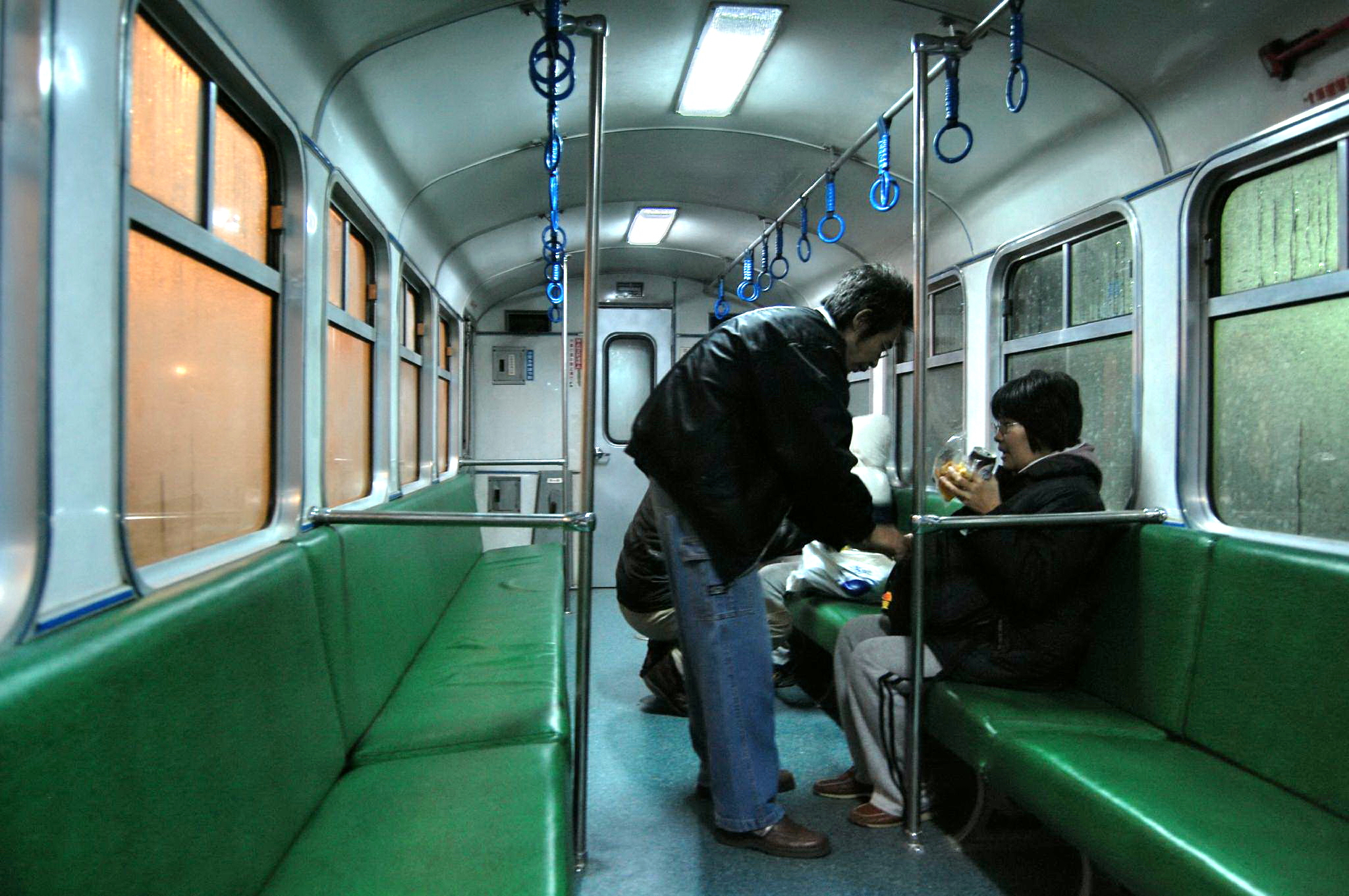 Jhushan Line Passenger car Interior 祝山線客車車廂內